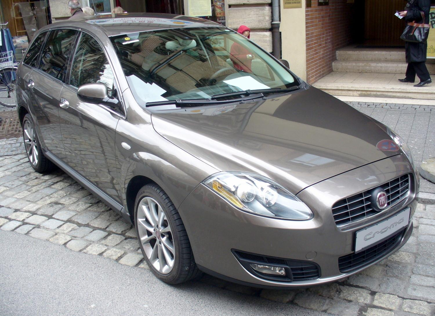 Fiat Croma